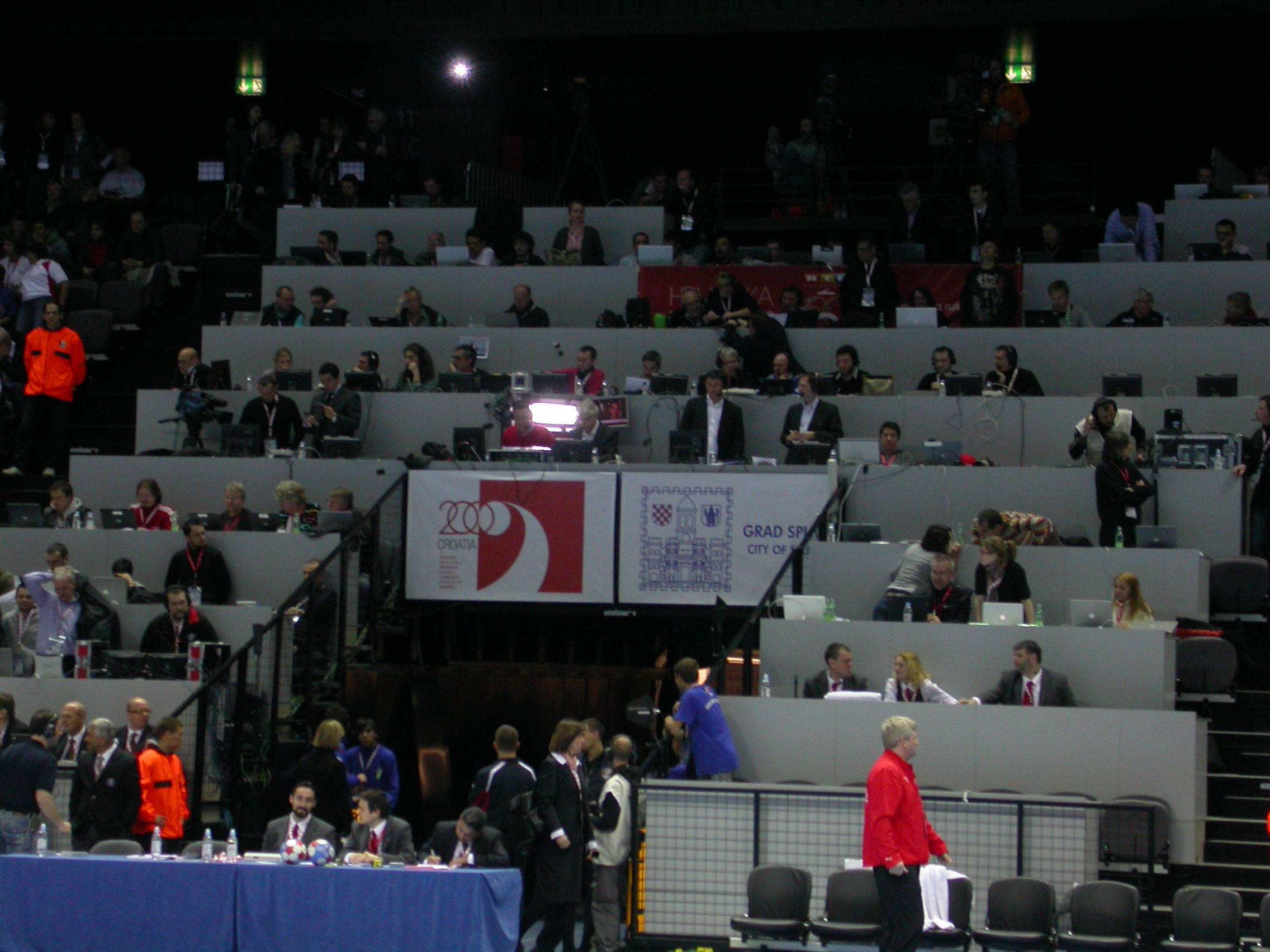 Press stands in Split.